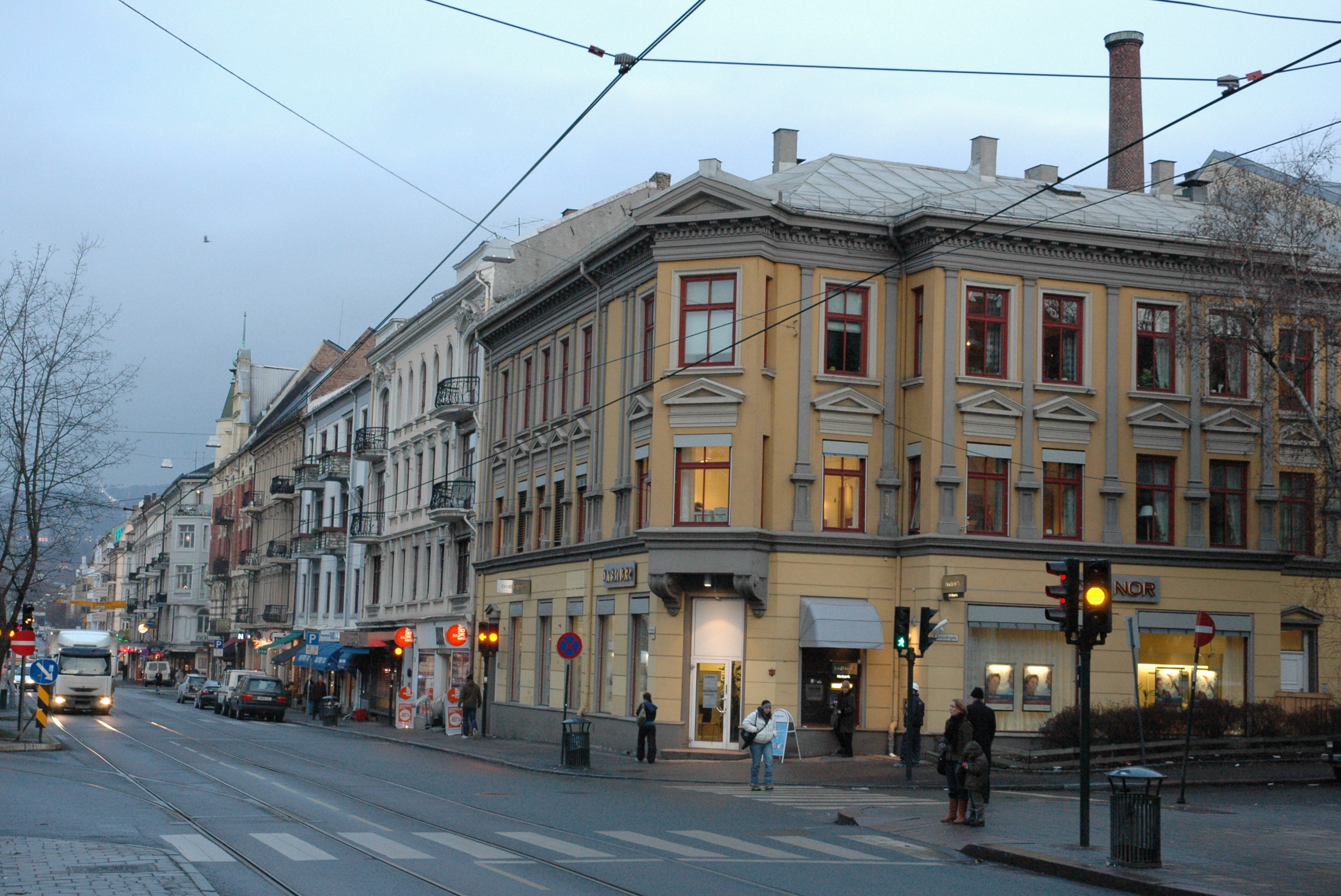 Bogstadveien in the neighbourhood of Majorstua, Oslo. Classic bourgeoise tenements from 1880/1890.